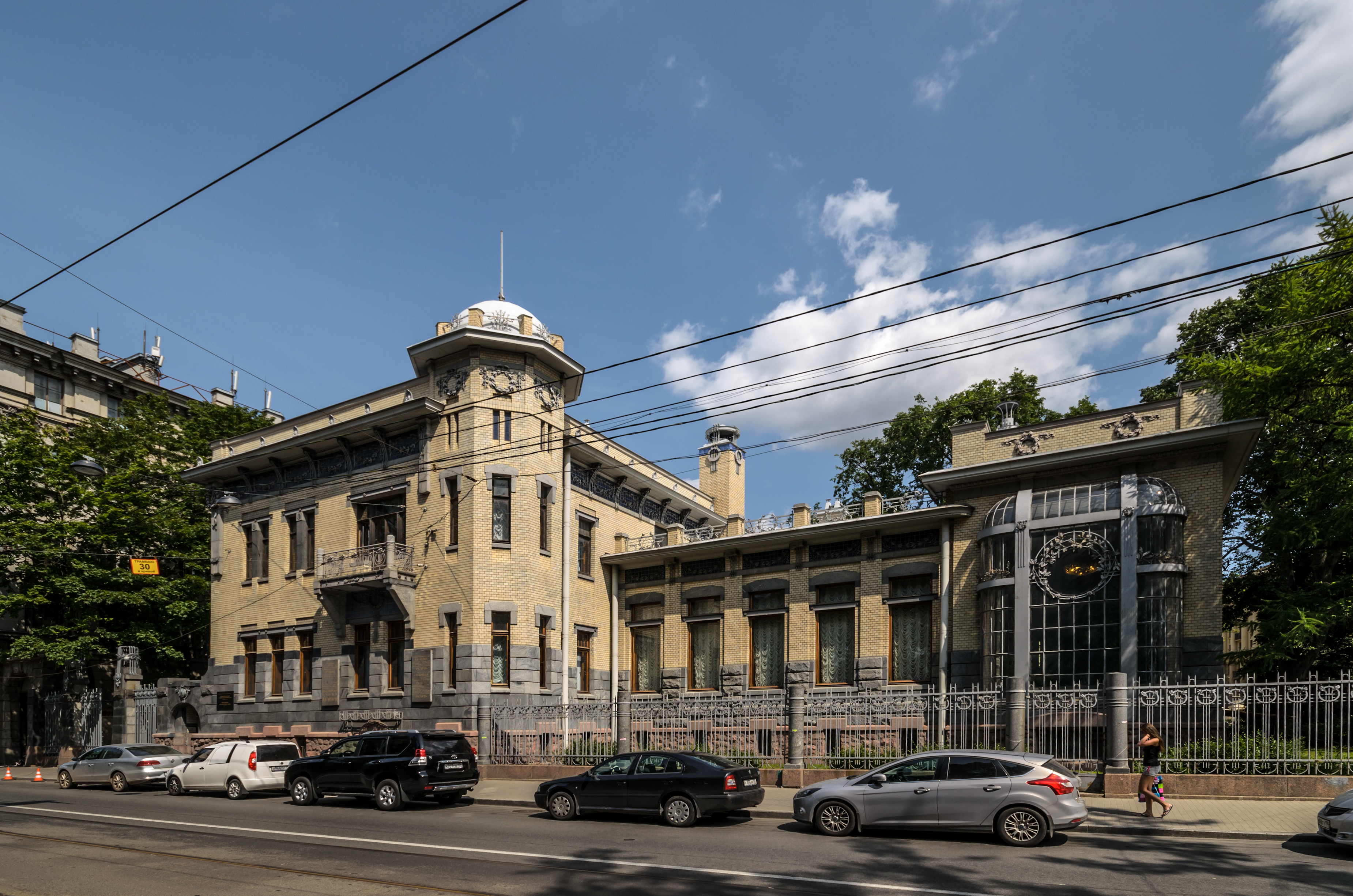 Mansion of Mathilde Kschessinskaya in Saint Petersburg